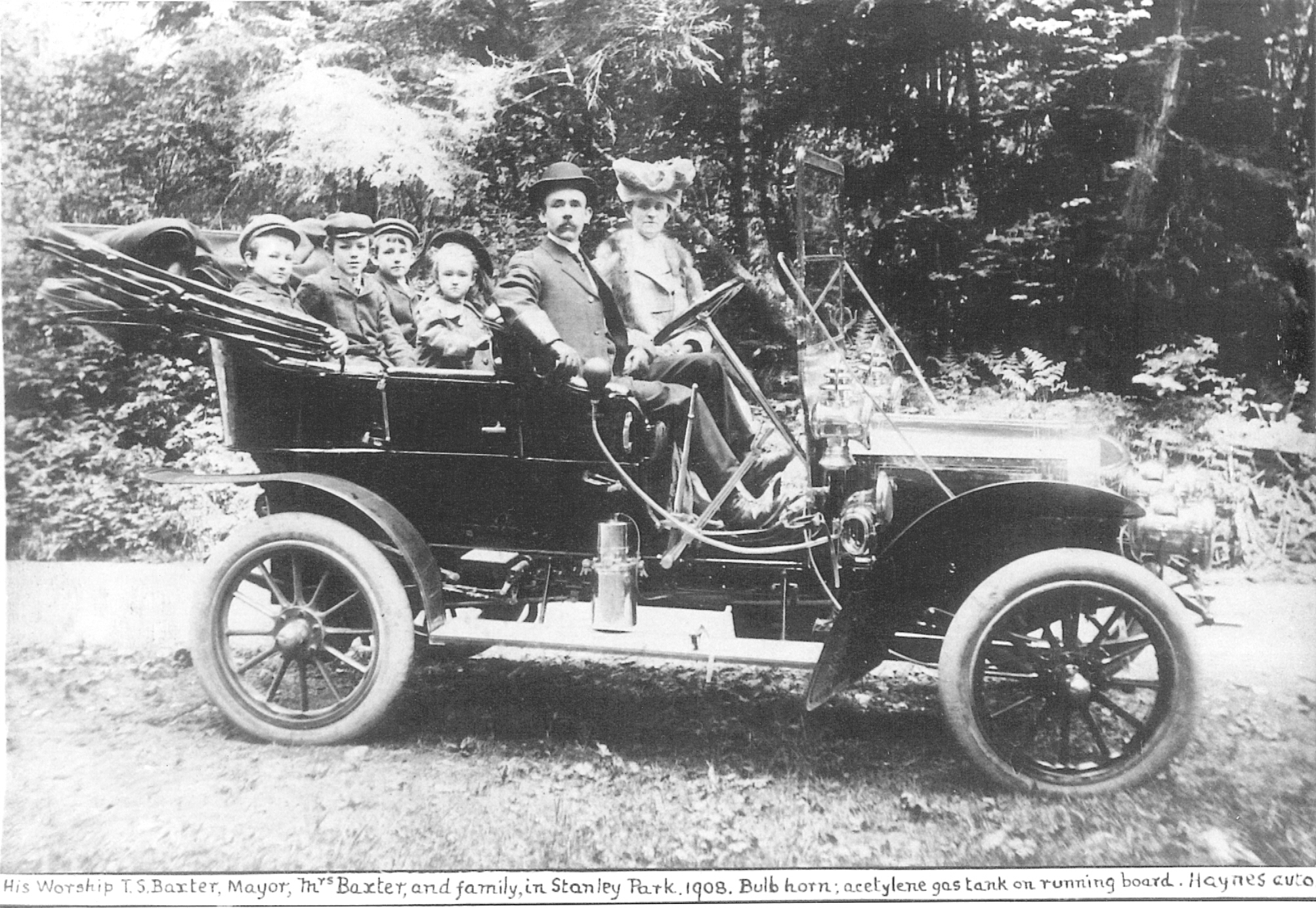 His worship T.S. Baxter, Mayor of Vancouver, Mrs. Baxter and family in Stanley Park in 1908. Bulb horn, acetylene gas tank on running board. Haynes auto.